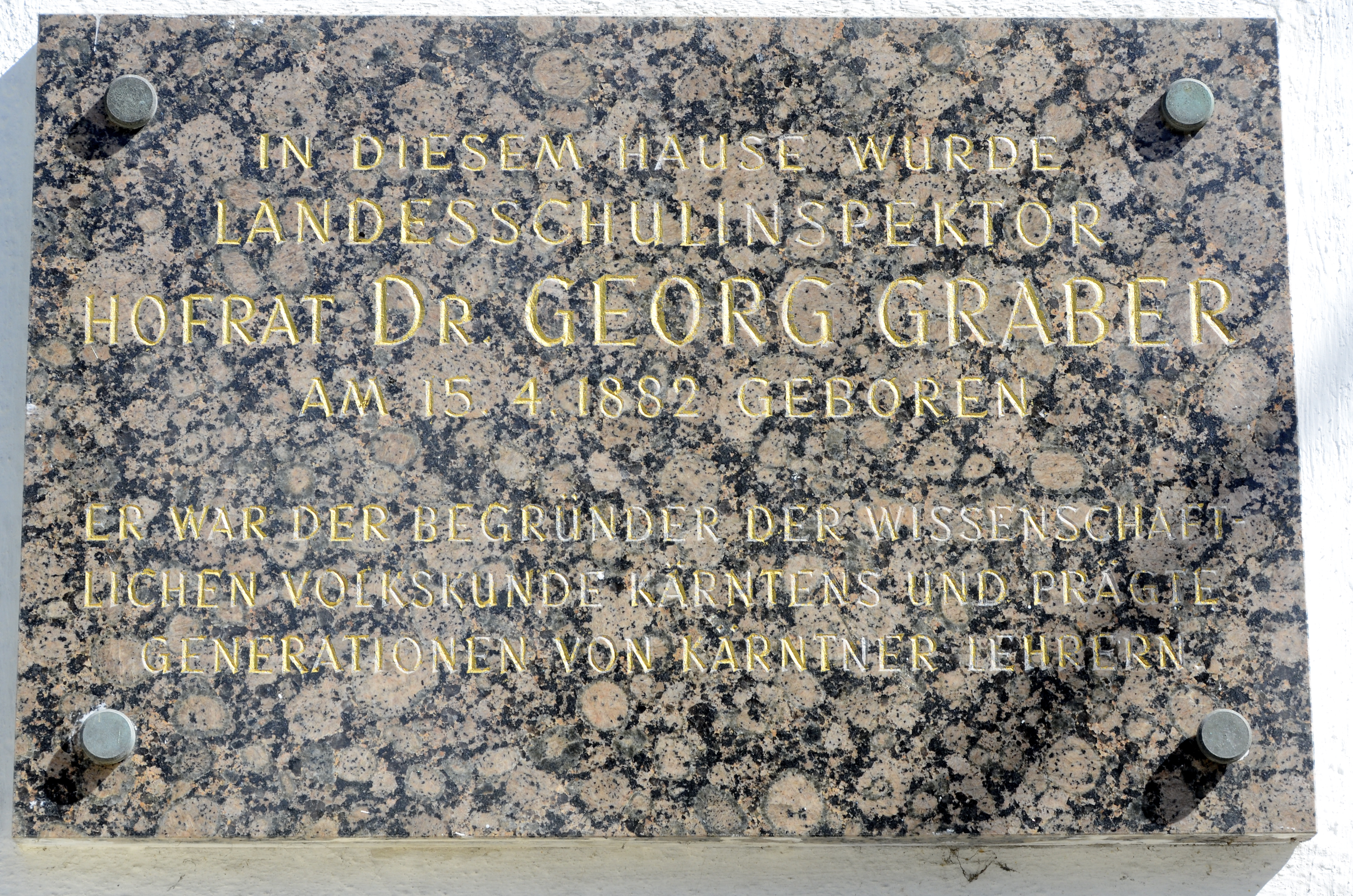 Plaque for Georg Graber on castle Leonstain, municipality Poertschach on the Lake Woerth, district Klagenfurt Land, Carinthia, Austria, EU